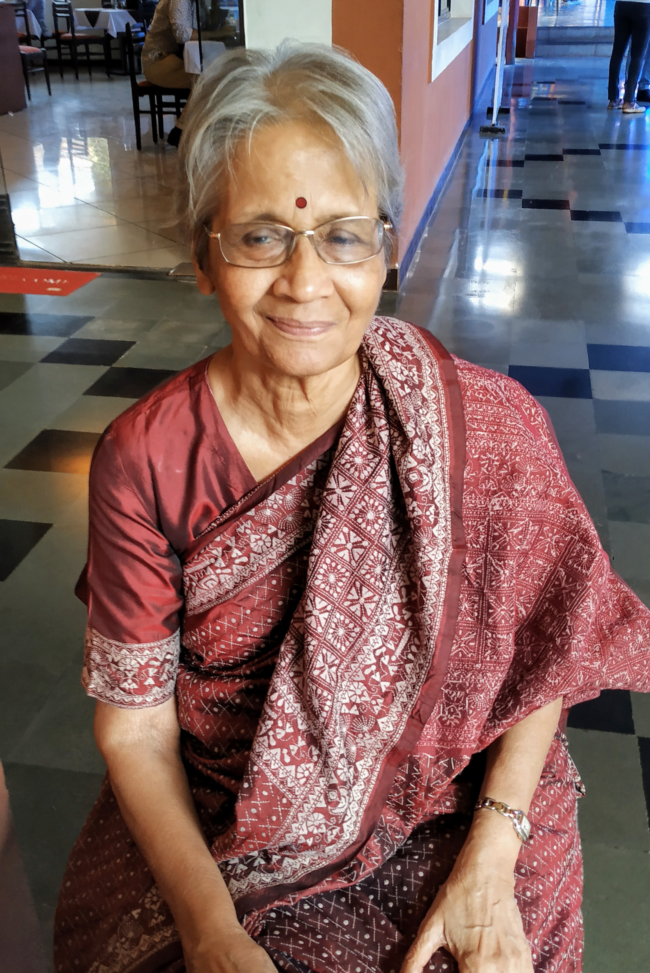 Shanta Gokhale at the Goa Arts and Literature Festival (GALF), 2018